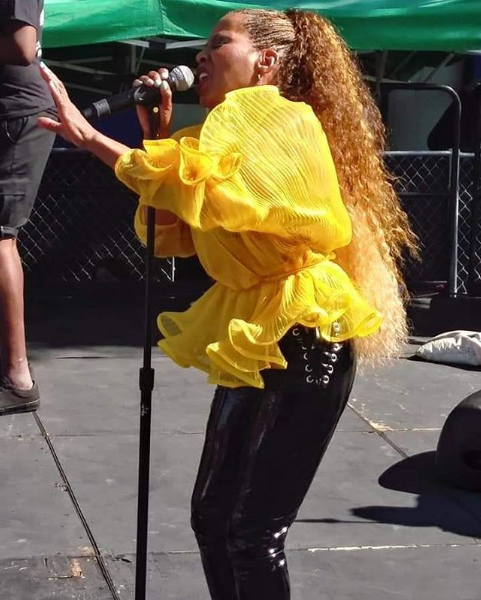 Maxine Jones performing at the San Francisco Soul of Pride back on June 30, 2019.